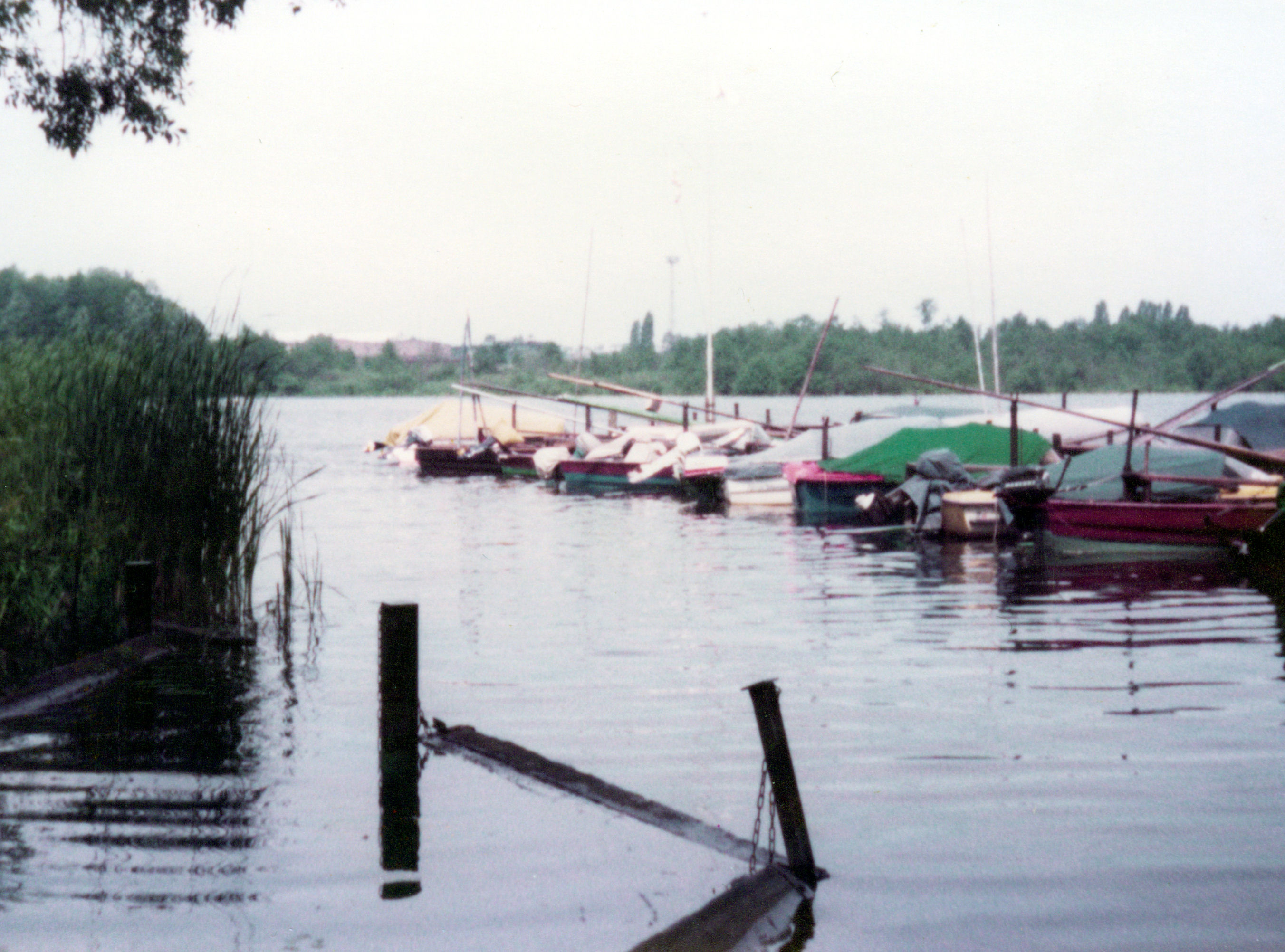 Niederneuendorfer See (1982)